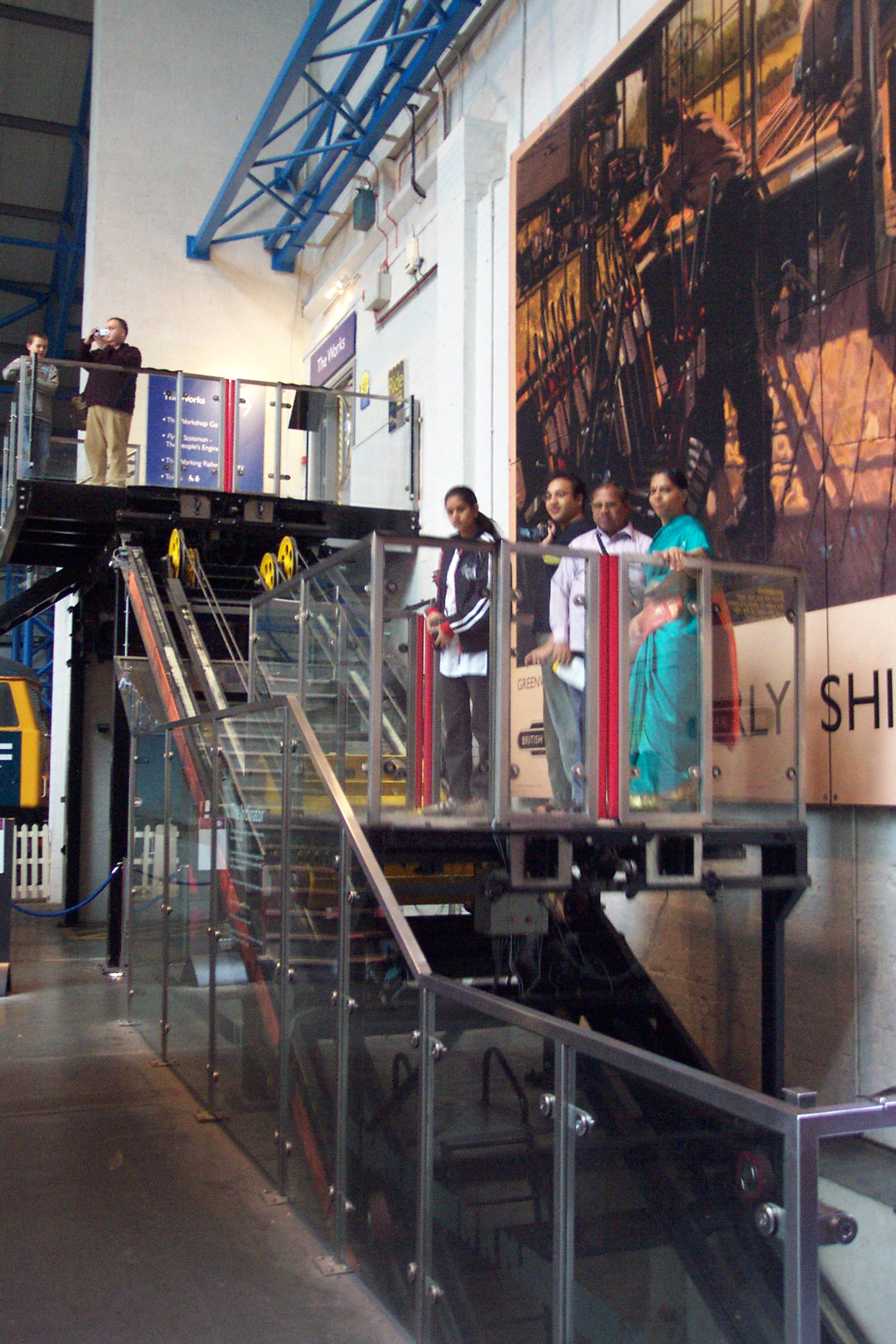 The inclinator at the National Railway Museum, York, England. This both serves to provide step-free access to the museum gallery, and to demonstrate the workings of a funicular railway.